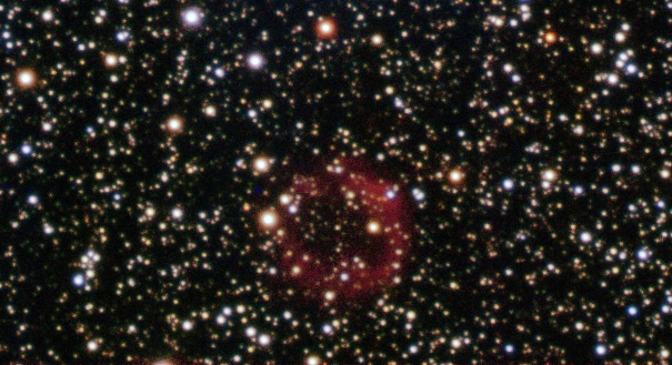 Sakurai's Object, a star in the Sagittarius constellation undergoing a helium flash. This rarely-observed phenomenon has made Sakurai's Object a unique center of interest for astronomers.